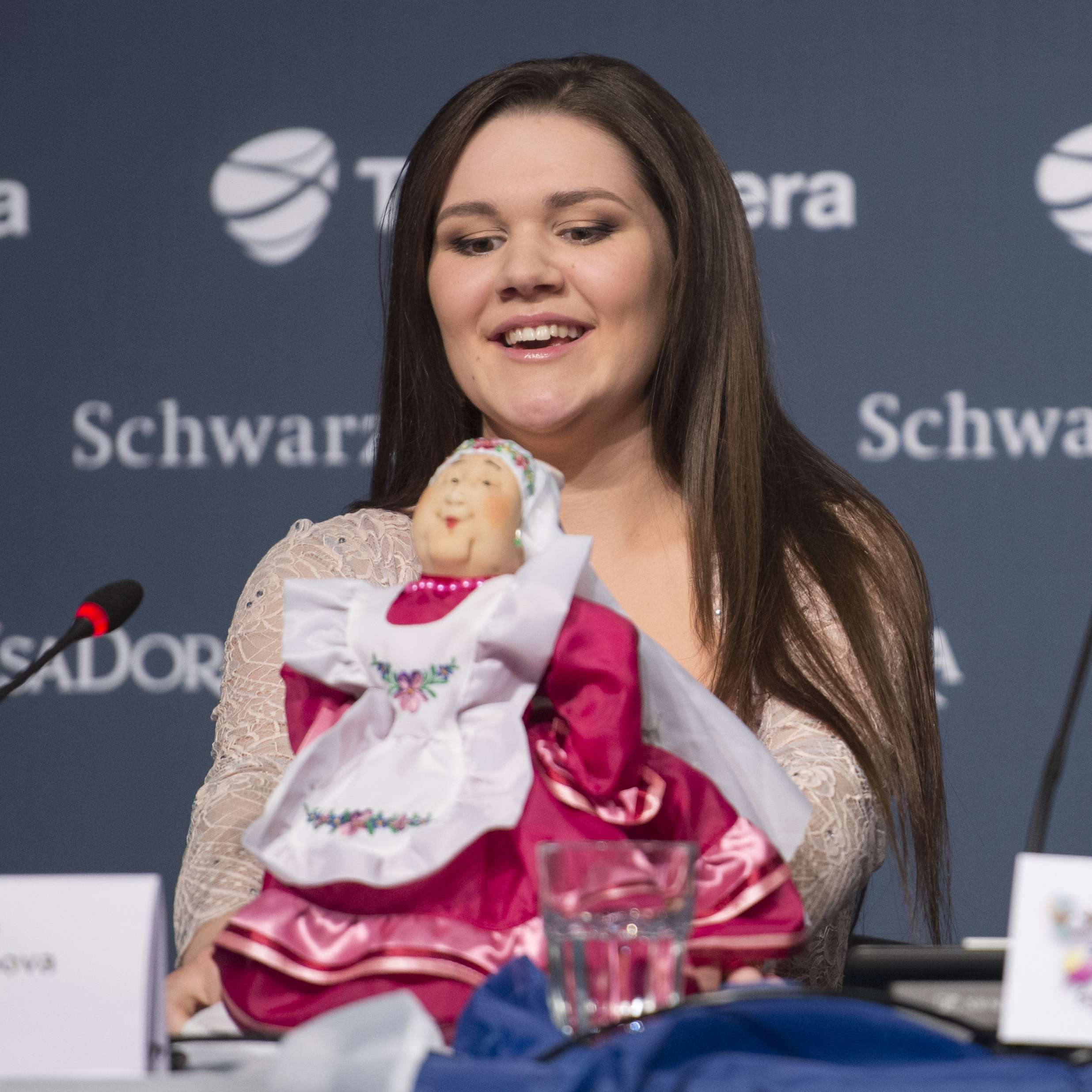 Dina Garipova at a press conference during the Eurovision Song Contest 2013 in Malmö. (Help translate this text)